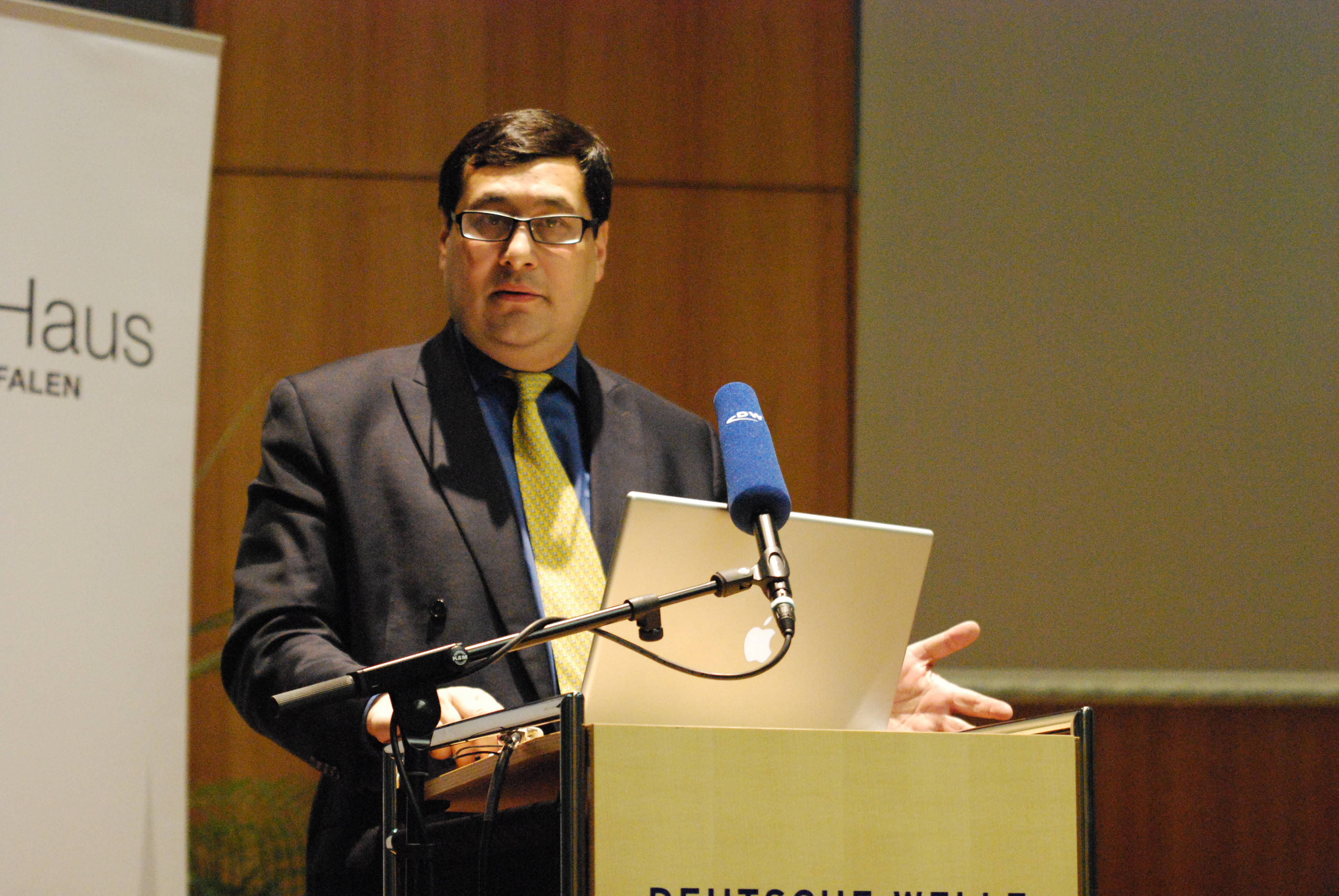 Prof. Adil Najam during talk at Deutsche Welle Building in Bonn, Germany